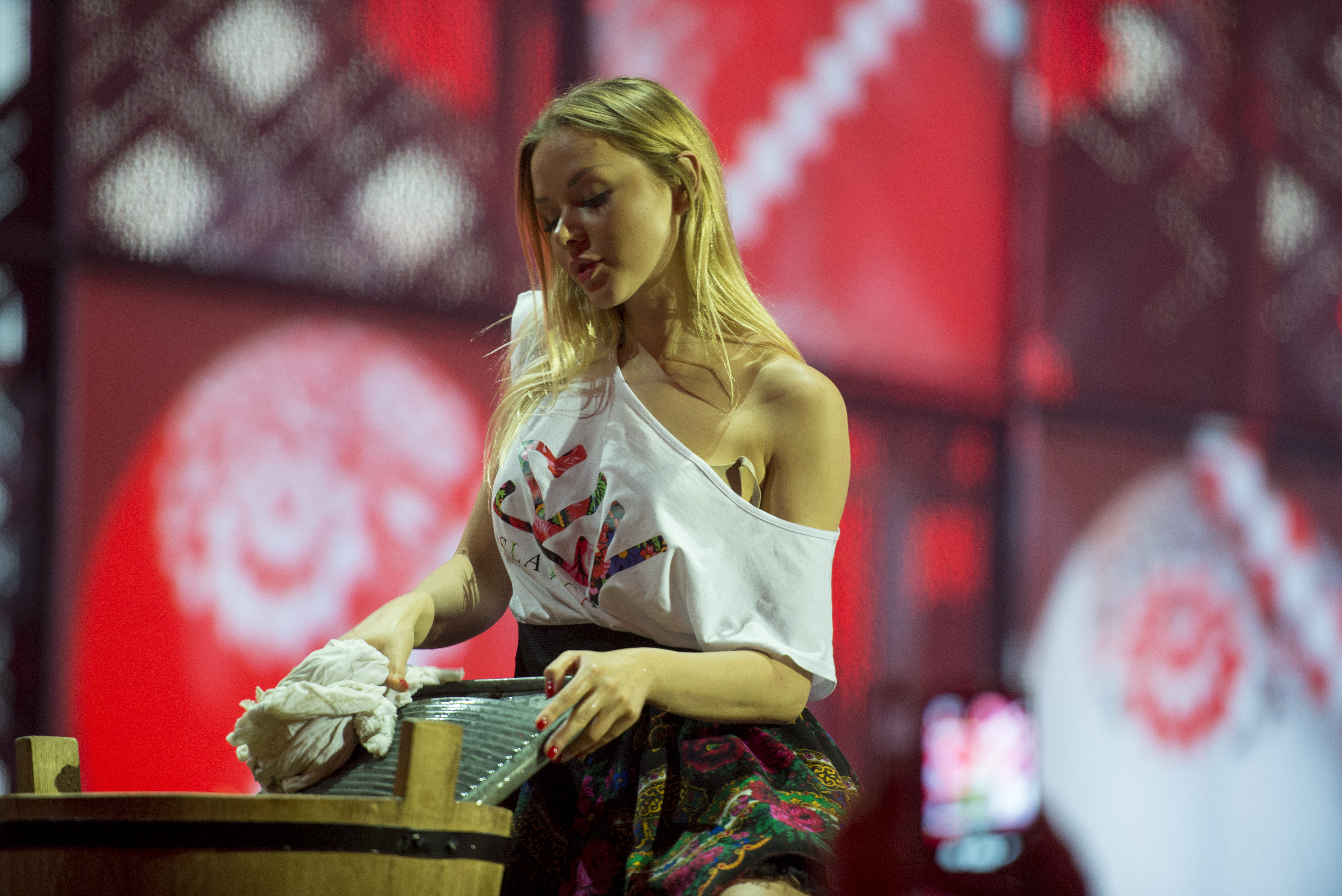 Donatan and Cleo representing Poland with the song "My Słowianie" during the first dress rehearsal of the final of the Eurovision Song Contest 2014 Copenhagen. (Help translate this text)